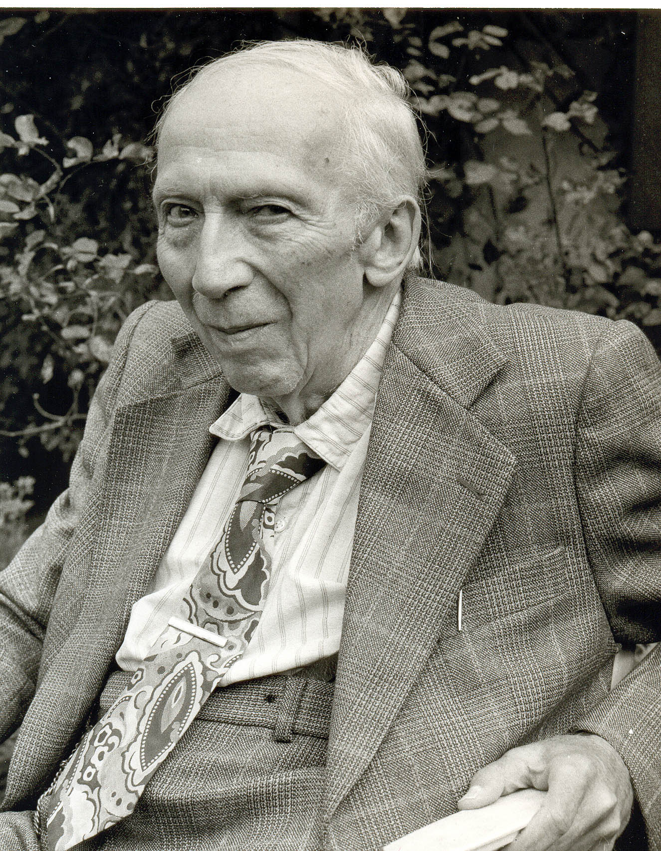 Franz Frank, German painter